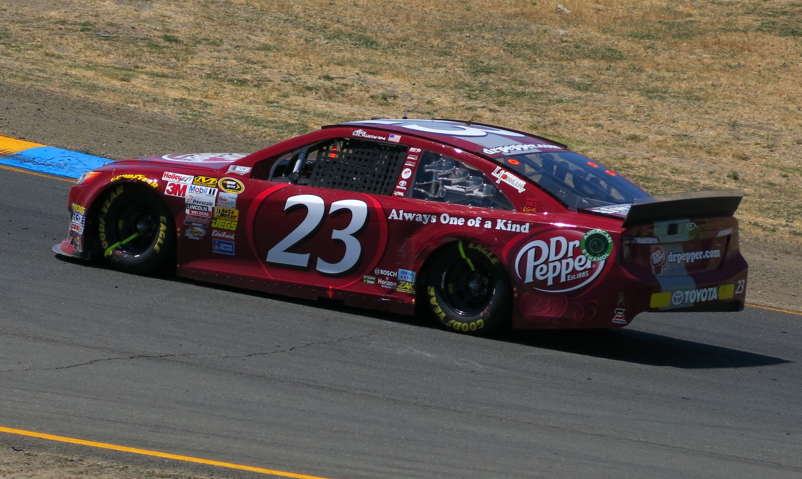 Alex Bowman's No. 23 Dr Pepper Toyota at Sonoma Raceway in 2014